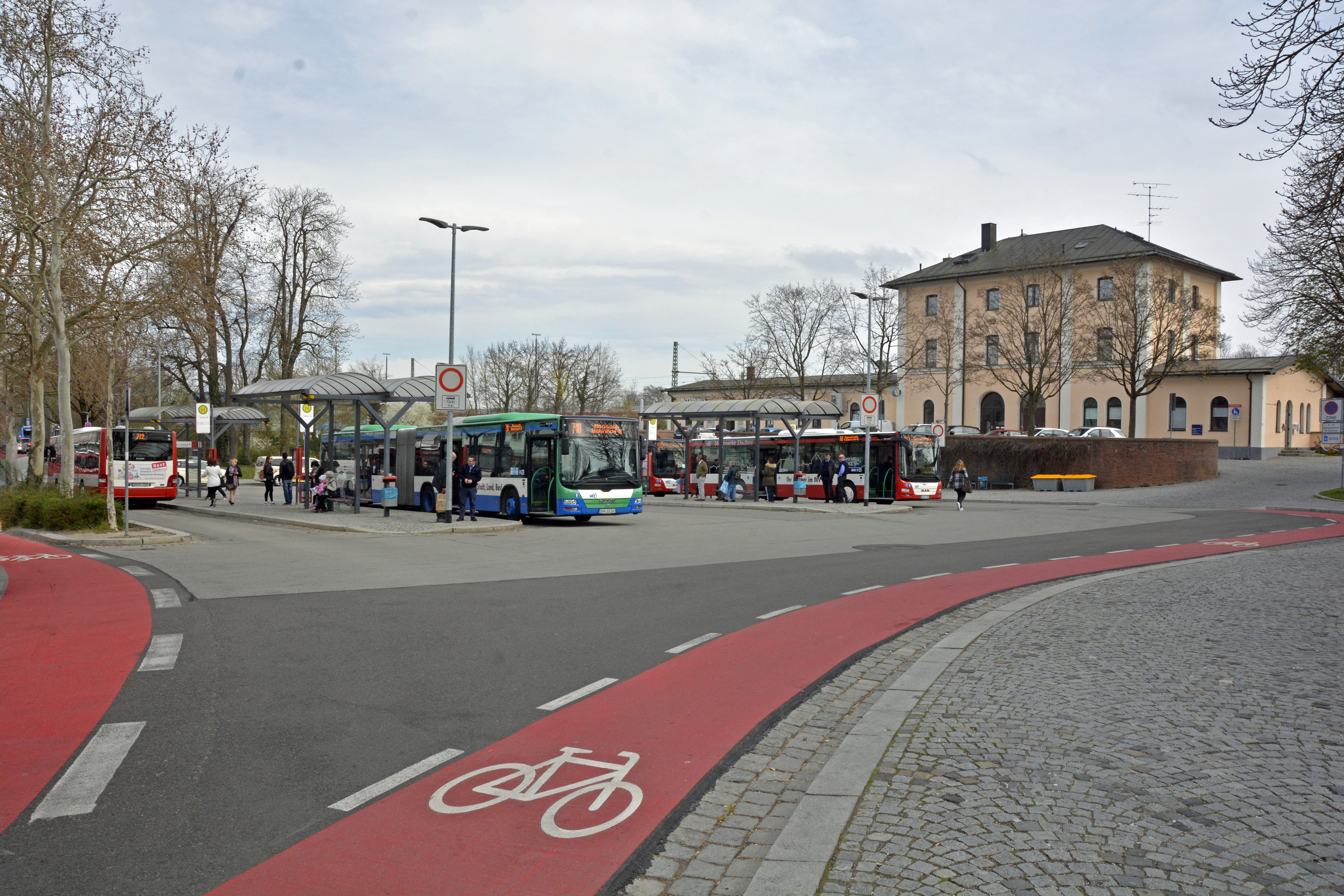 Deutsche Bahn-Train Station and Bus Station Dachau - Train Station for Line S2 (of MVV) and Regional Trains, plus Bus Station